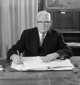 A 1962 black and white portrait of William Spooner, Senator for New South Wales